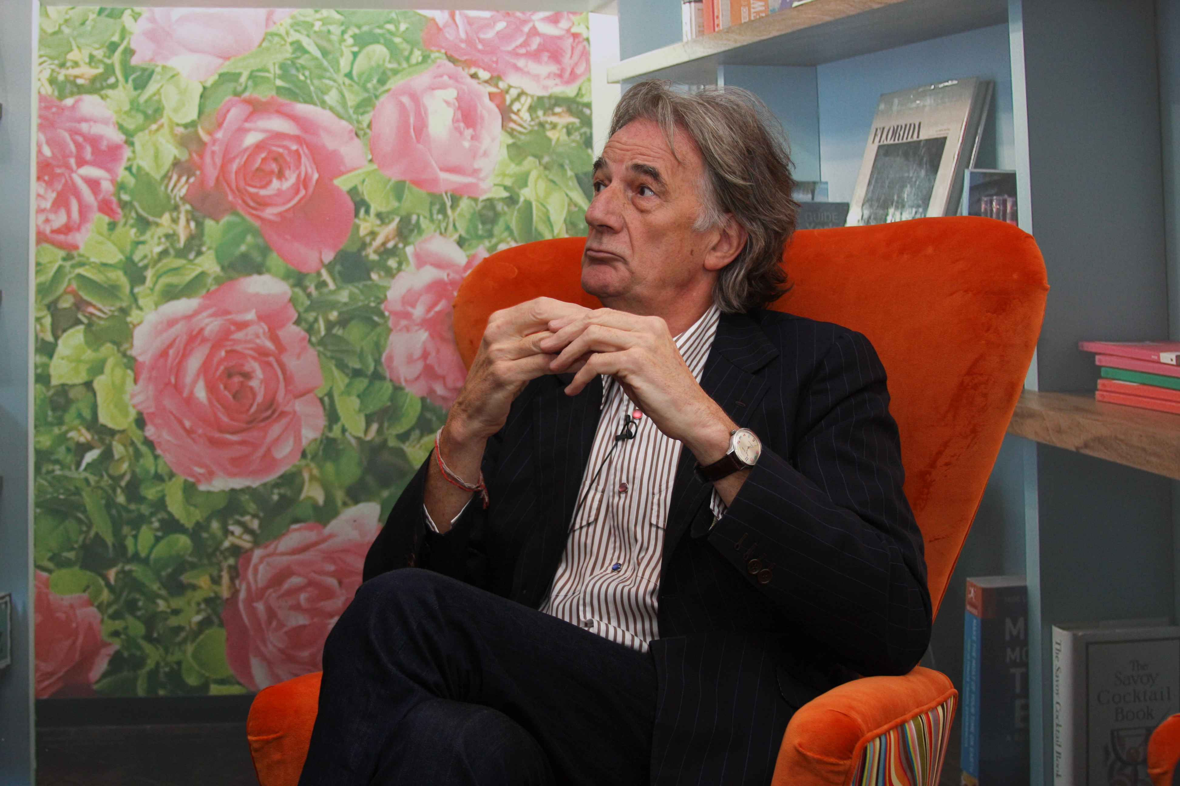 London Fashion Week, SS10